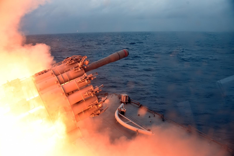 INS Chennai launching RBU-6000 Anti-Submarine Rocket (ASW) manufactured by the Ordnance Factory Board (OFB)